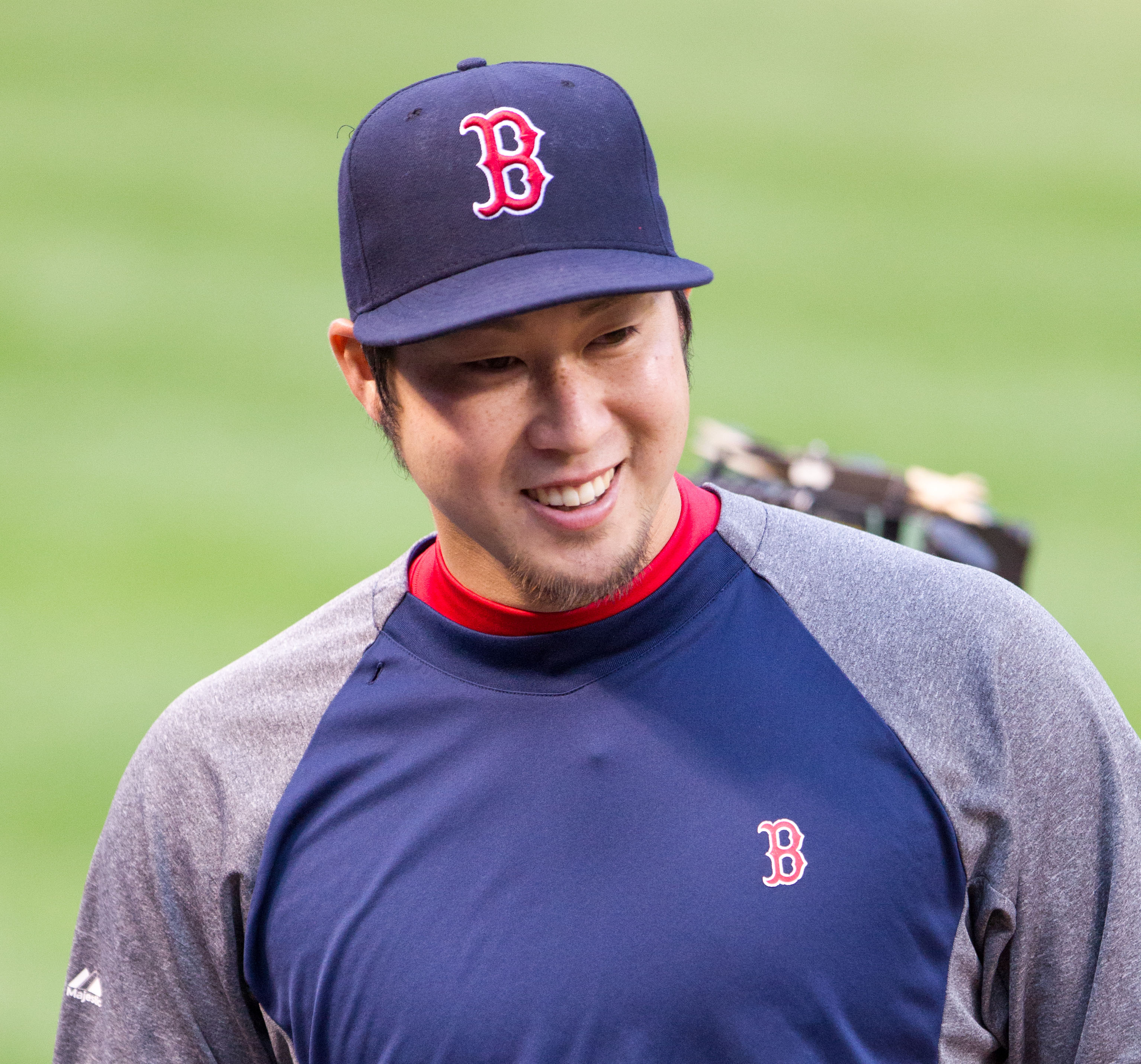 Boston Red Sox at Baltimore Orioles September 28, 2012